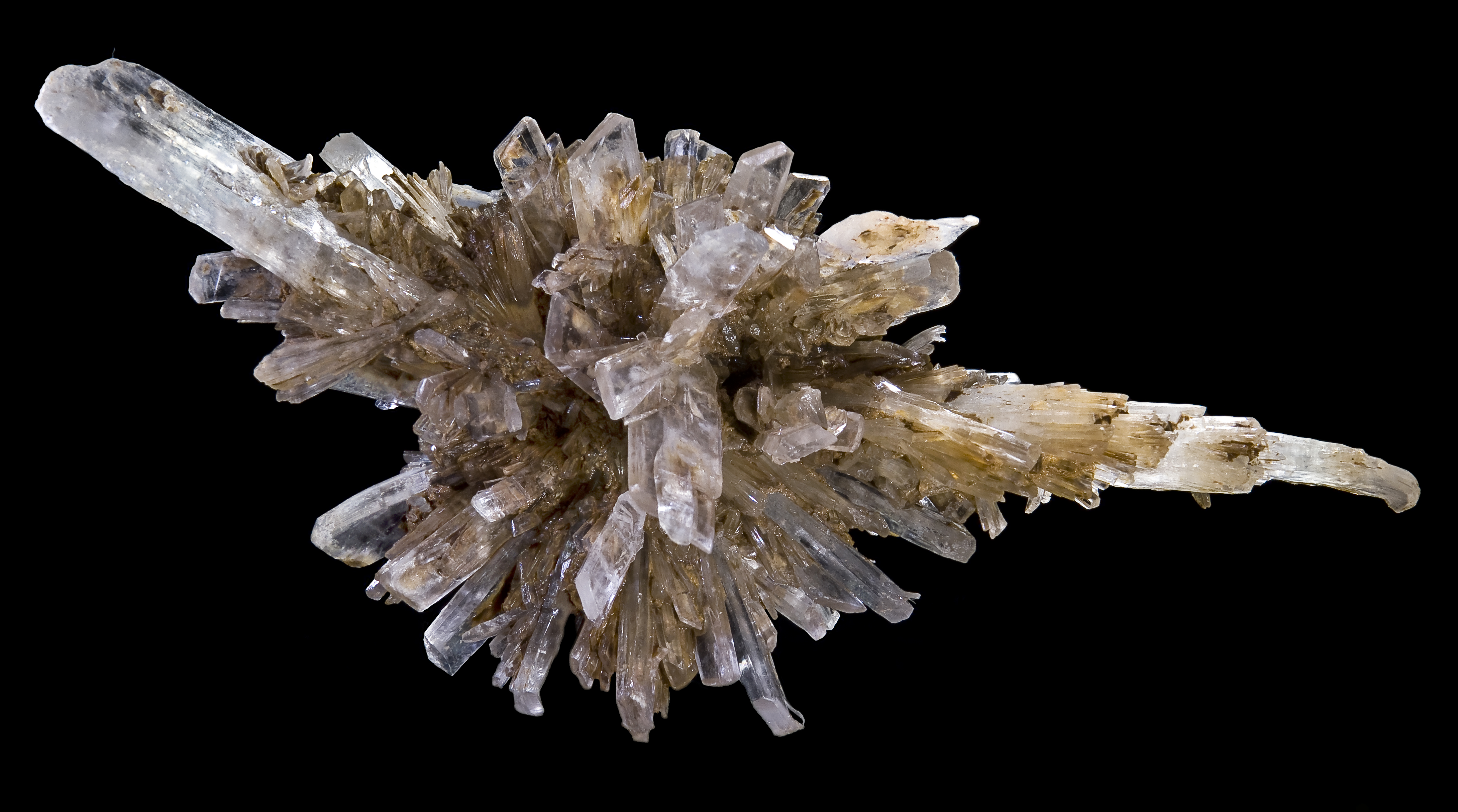 Gypsum Locality : Étampes, Essonne, région Île-de-France, France Size : 11.6x6cm